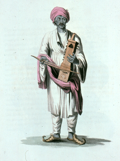 Etching of a man playing a sarangi, from an early 19th century book